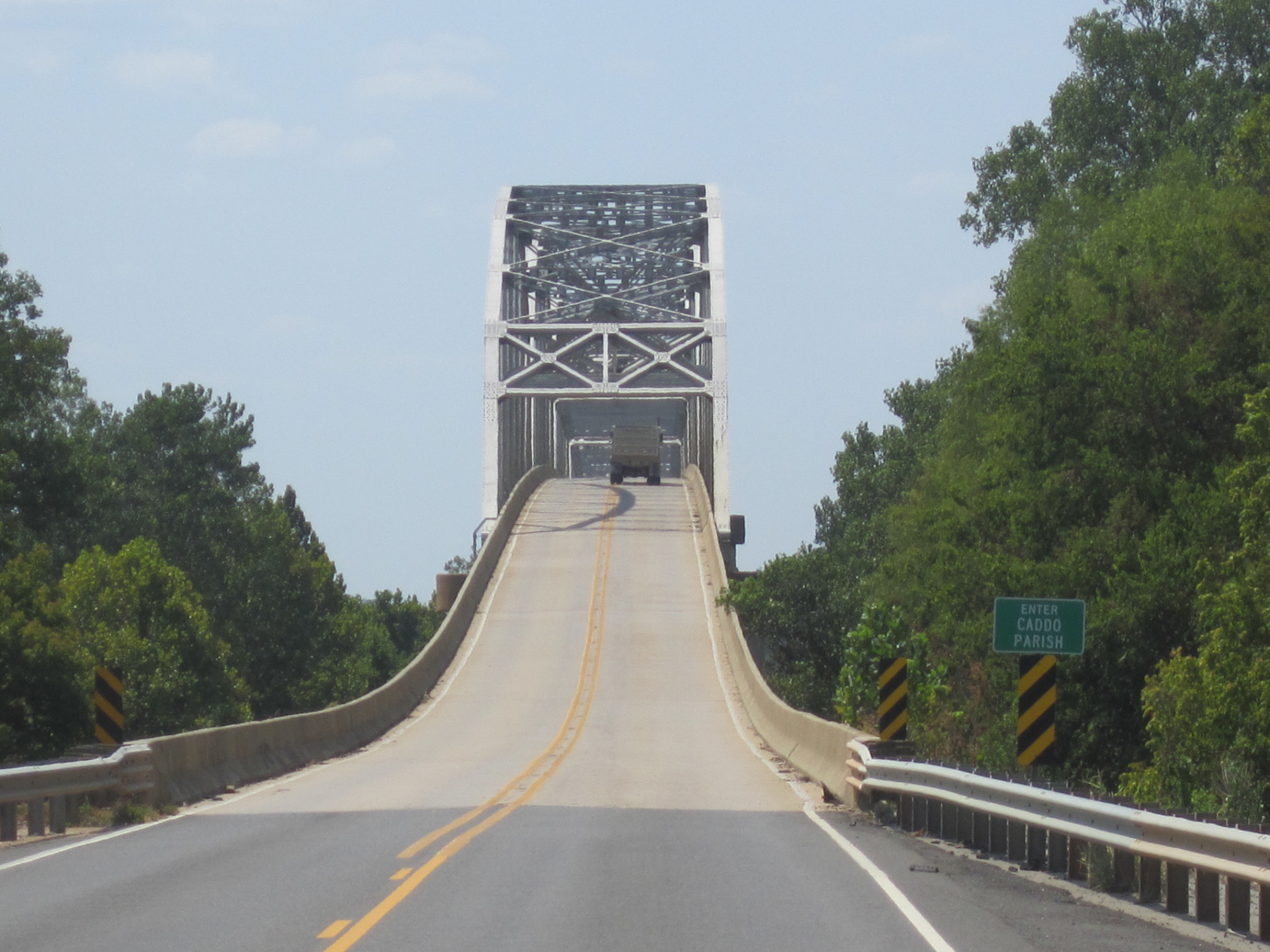 I took photo of bridge over Red River of the South entering Caddo Parish, using Canon camera.